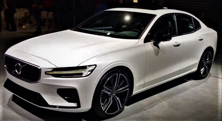 Volvo S60 R-Design at Launch event